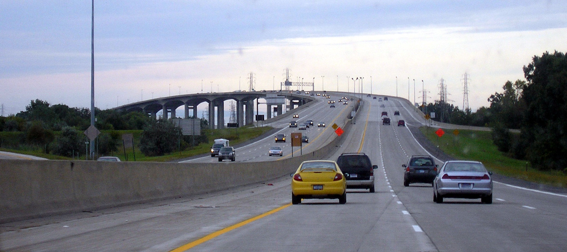 The Zilwaukee Bridge in Zilwaukee, Michigan (Seen from Northbound I-75).